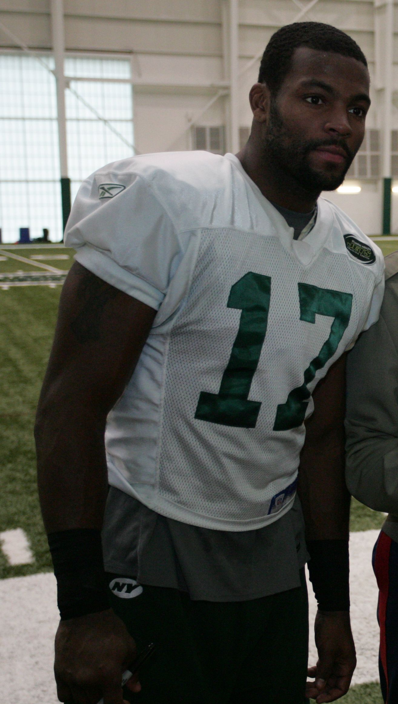 FLORHAM PARK, N.J. -- Marines from Recruiting Station New Jersey meet with Braylon Edwards, #17 wide receiver, New York Jets, and David Clowney, #87 wide receiver, during a tour of the team's practice facility Nov. 13. The team invited service members to their practice and Sunday the Jets will honor military veterans during their military appreciation day. (Official Marine Corps photo by Sgt. Randall A. Clinton)